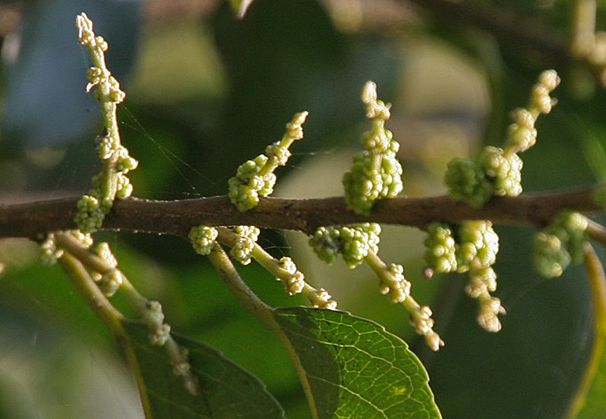 Drypetes roxburghii syn. Putranjiva roxburghii in Kolkata, West Bengal, India.